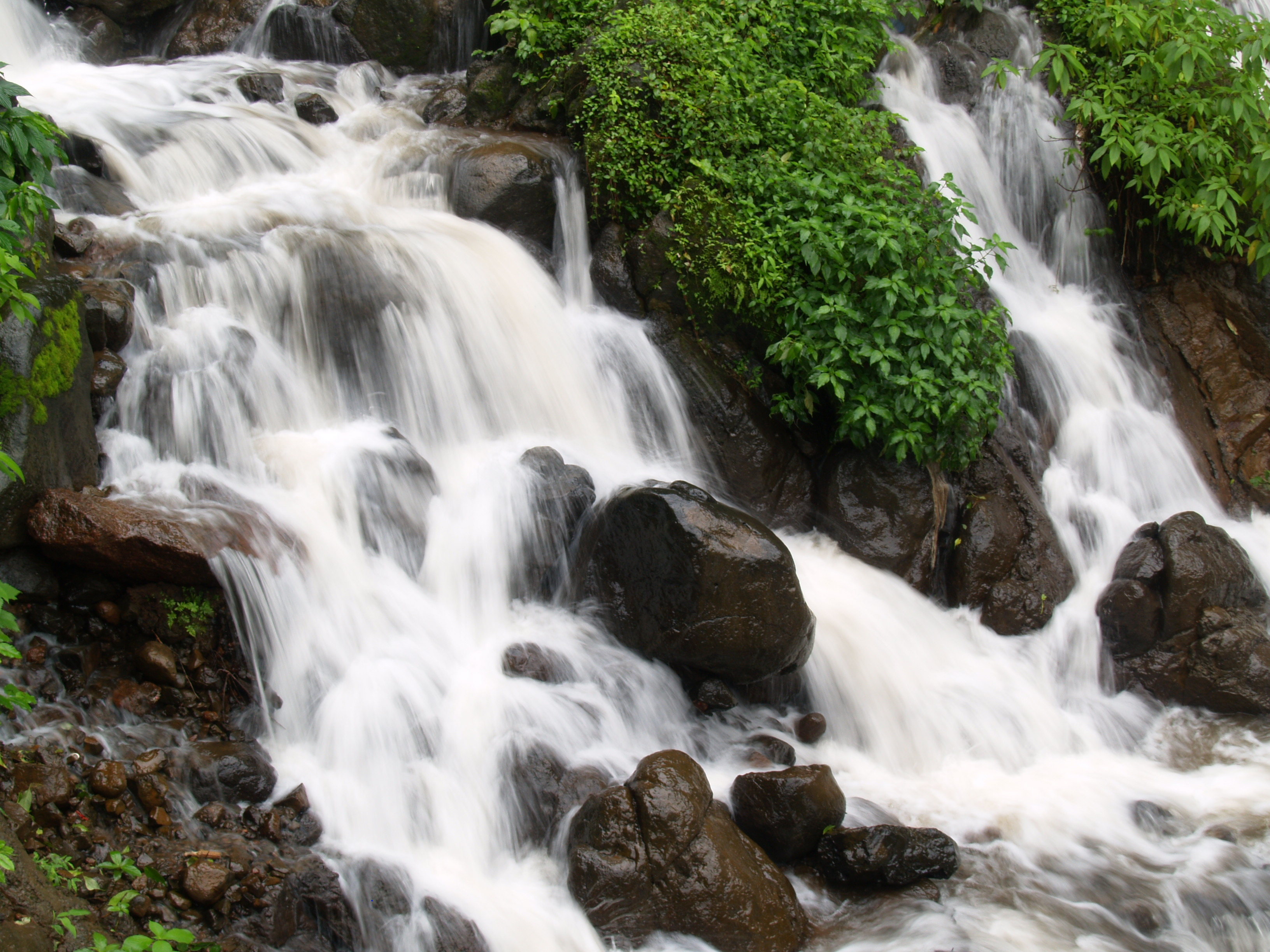 Rakesh Ayilliath, clicked mid-day on Sept 2 2007